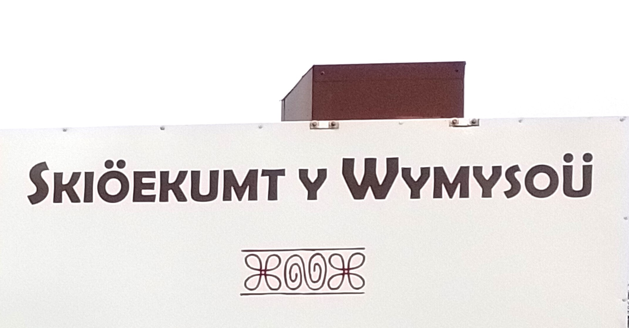 "Skiöekumt y Wymysoü" in Vilamovian language meaning "Welcome in Wilamowice" on welcome sign.